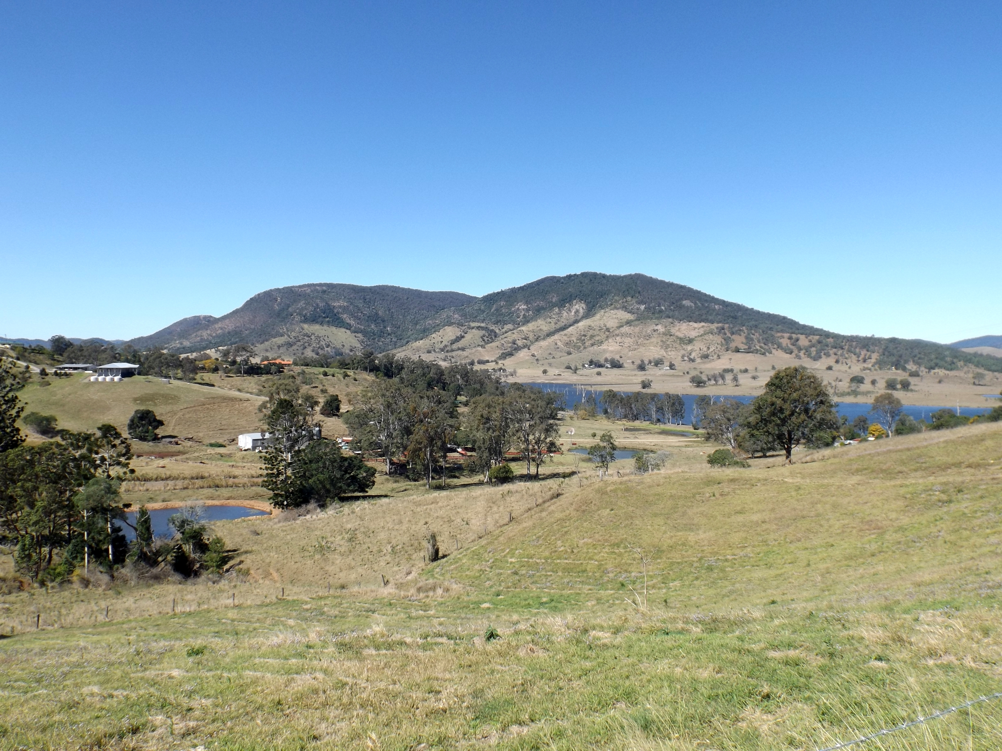 Photo of paddocks and Somerset Dam at Viileneuve, Somerset Region, Queensland, Australia. Mount Archer and the D'Aguilar Range can be seen in the background.